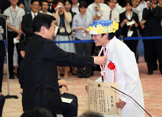 Yoshihiko Noda, Prime Minister, awarded a certificate of commendation to Masayuki Miyazawa, Visiting Associate Professor of the Office of Liaison and Cooperative Research, Tokyo University of Marine Science and Technology, at the Prime Minister's Official Residence in Chiyoda Ward, Tōkyō Metropolis on July 13, 2012.